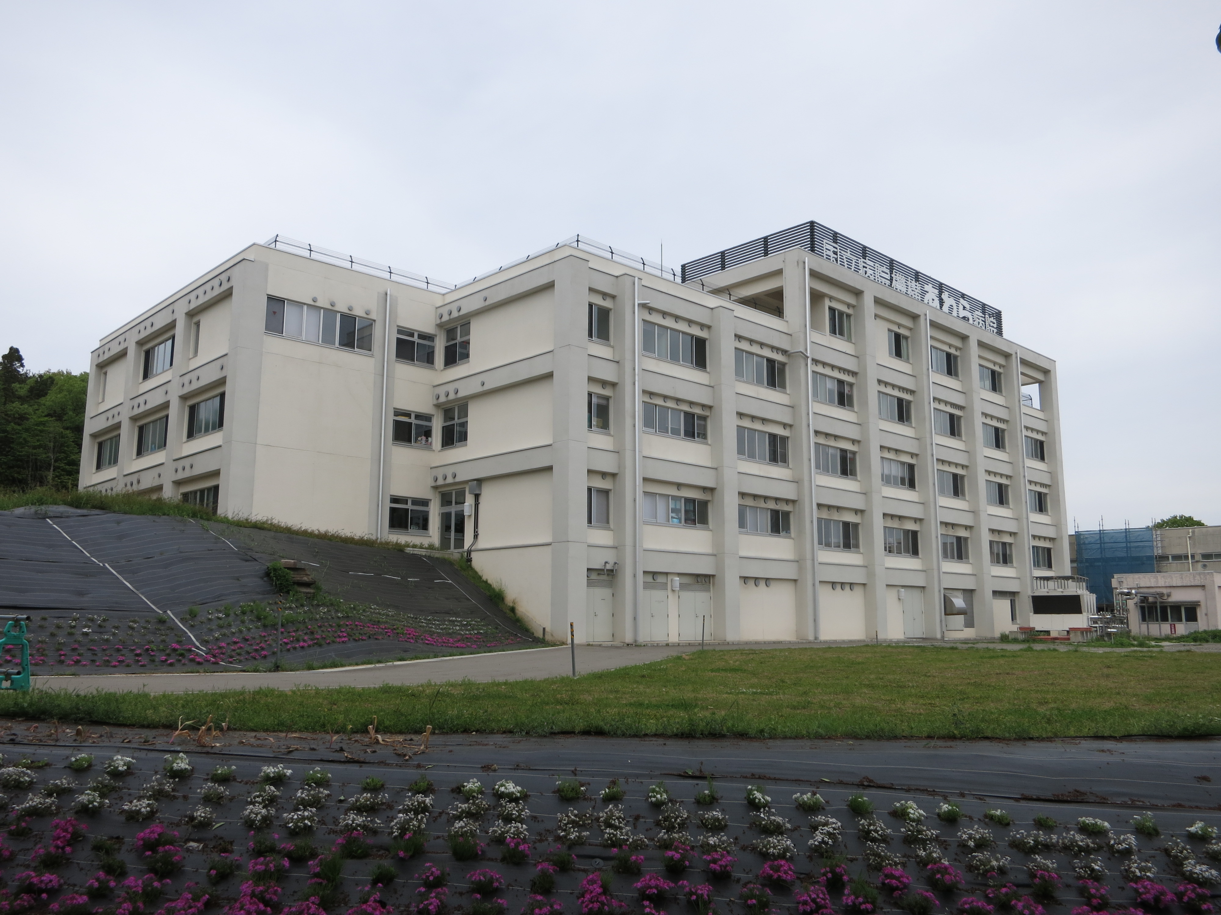 National Hospital Organization Awara Hospital